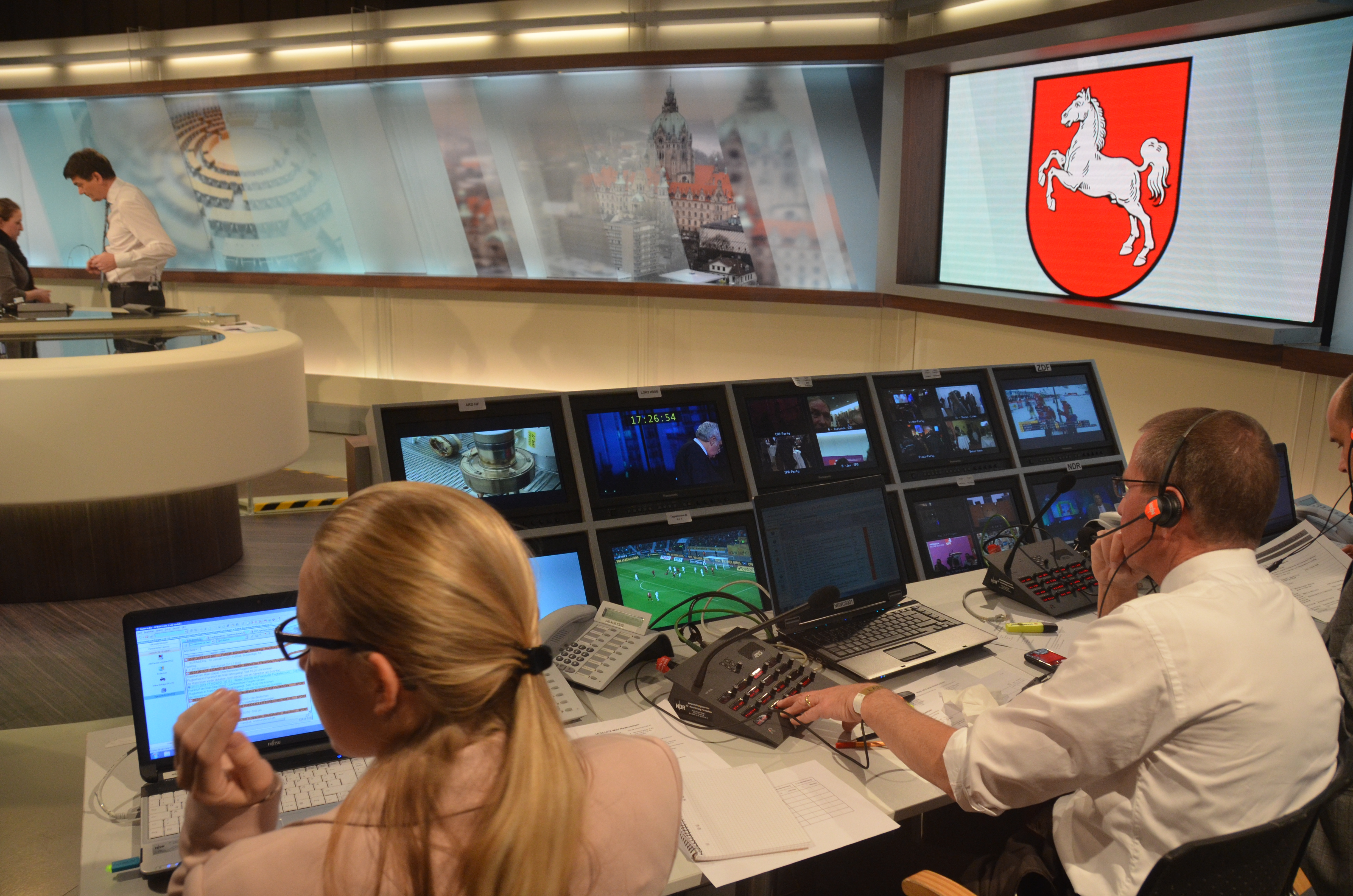 Wikipedia im Landtag – Niedersachsen 20. Januar 2013 in Hannover am WahlabendDieses Bild entstand während der Landtagswahl in Niedersachsen 2013 im Landtag Hannover. This work is free and may be used by anyone for any purpose. If you wish to use this content, you do not need to request permission as long as you follow any licensing requirements mentioned on this page.